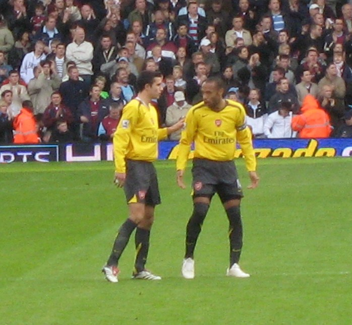 Robin van Persie with Thierry Henry